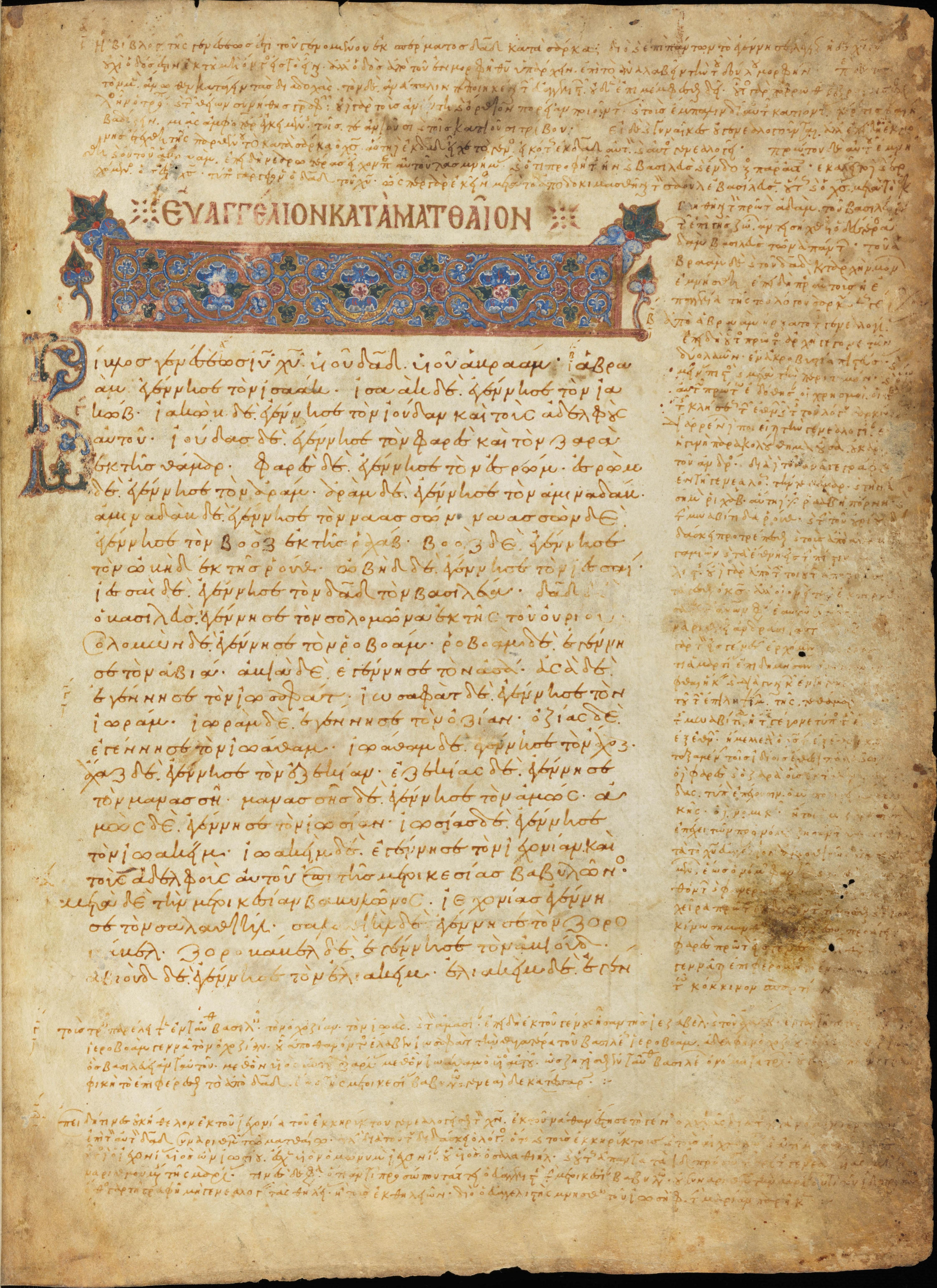 the first page of the Gospel of Matthew; decorated headpiece